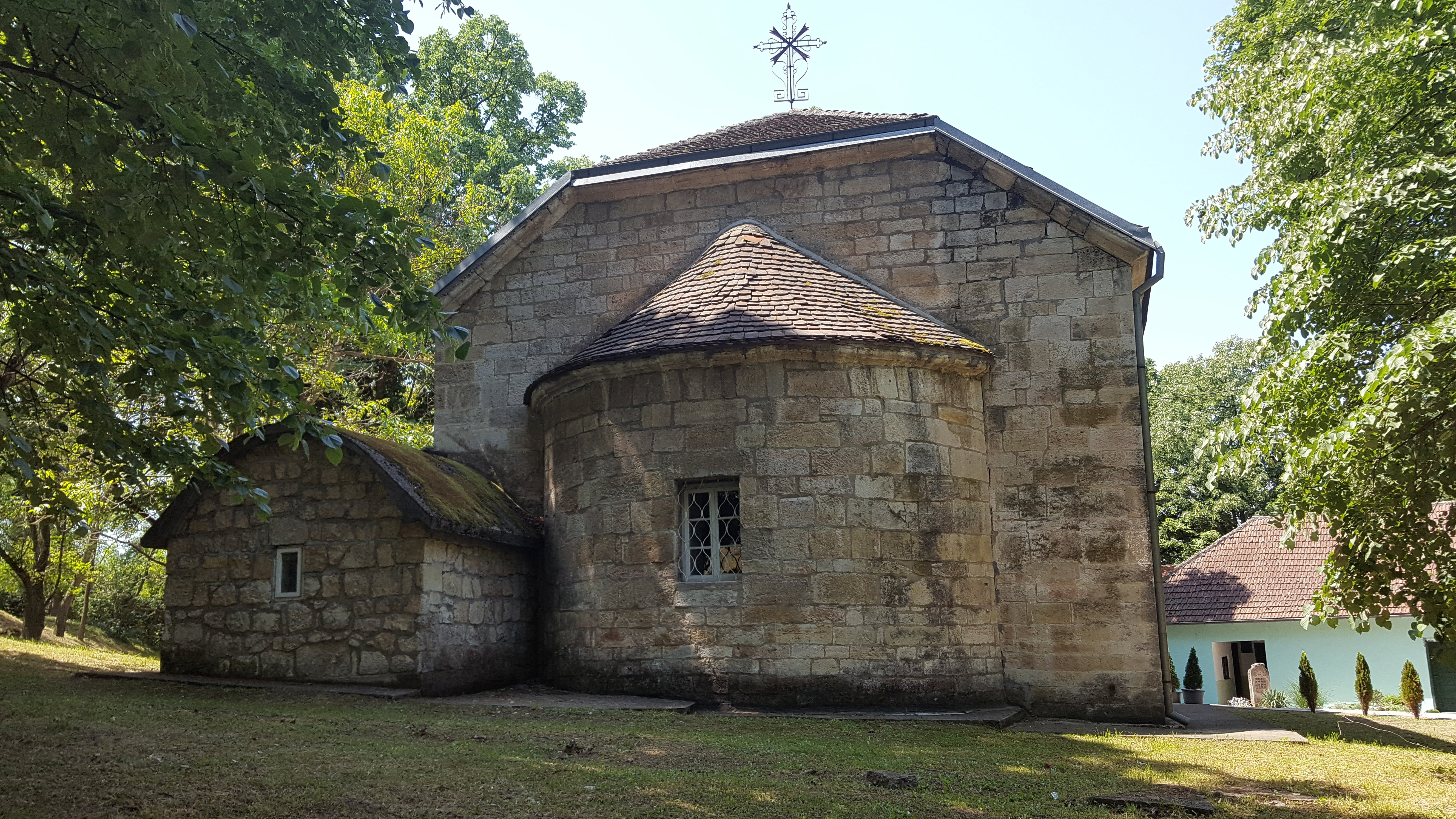 Crkva sv. arhangela Mihajla u Beljini